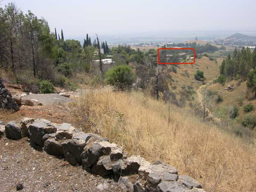 This path was used to transfer the wounded and dead during the night of 11 Adar from the Tel Hai courtyard to the founders' courtyard in Kfar Giladi